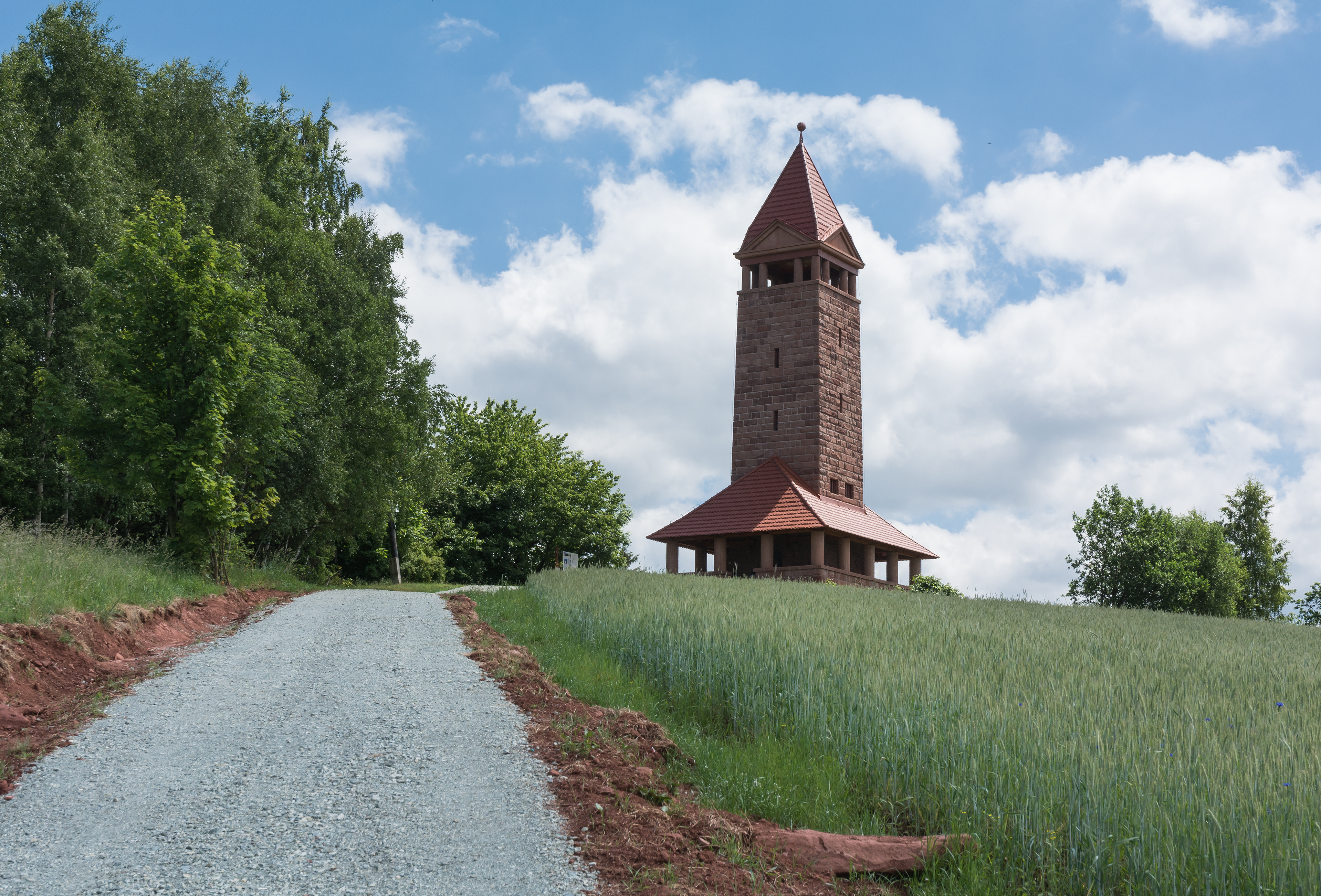 Observation tower on St. Anna’s Mountain in Nowa Ruda